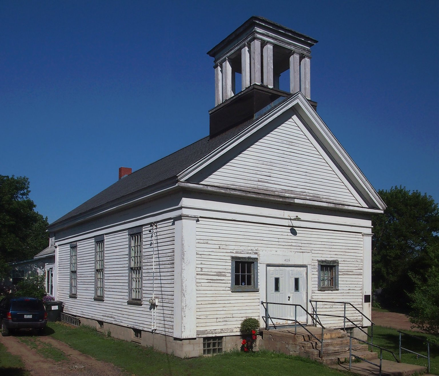 First Congregational Church of Clearwater, 405 Bluff St, Clearwater, Minnesota, USA. Viewed from the east atop my car.